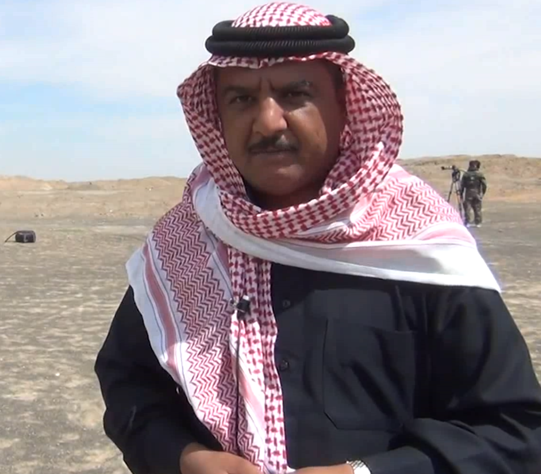 Samer Kharkhi [1], one of the leaders of the Raqqa Civil Council.[2]